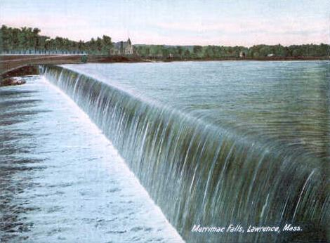 Merrimack Falls, Lawrence, MA; from a c. 1905 postcard.